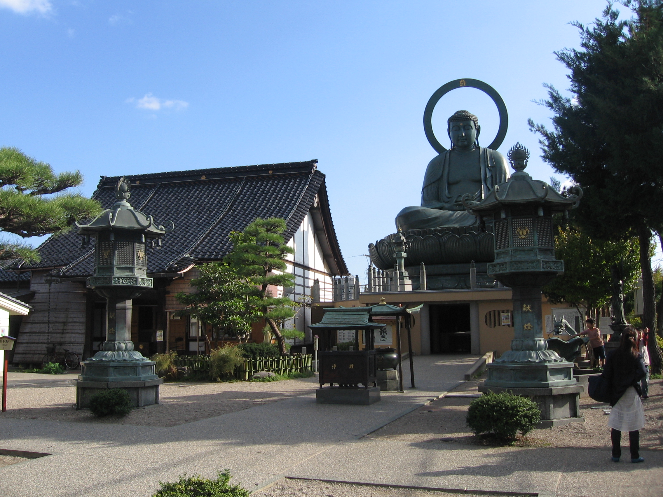 The precincts of Daibutsu Temple. The left building is the temple office, the right statue is Takaoka Daibutsu. In Otemachi, Takaoka, Toyama, Japan.